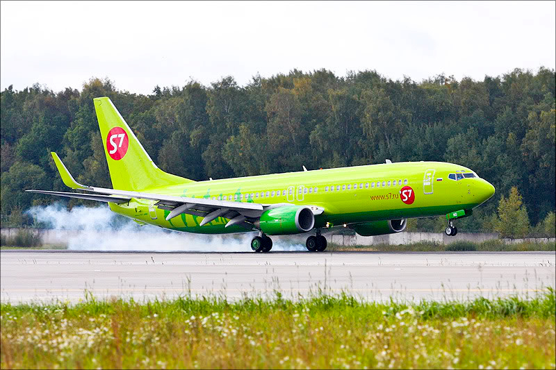 S7 Airlines Boeing 737-800 landing at Domodedovo International Airport (DME) in October 2009.